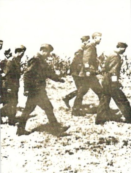 Delegates arriving on the first plenary session of the Anti-fascist Assembly for the National Liberation of Macedonia